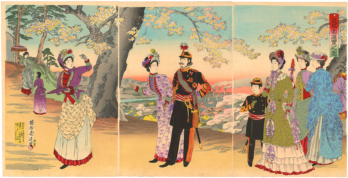 The Emperor, Empress, Crown Prince and court ladies on an outing to Asuka Park